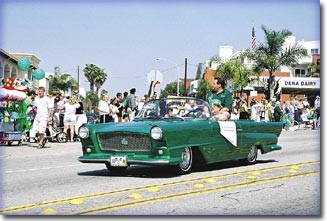 A Shamrock car in 2001 Original caption: "7th Annual Hermosa Beach St. Patrick’s Day Parade - St. Patrick’s Day Parade committee member Vince Schmeltzer cruises Pier Ave. in Dick Medkiff’s 1959 Irish built Shamrock, believed to be the world’s last rolling Shamrock. Photo by Kevin Cody" The author said "the car had to be pushed most of the way along the parade route".